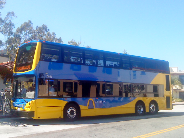 SLO Transit Enviro 500 Fleet #0963